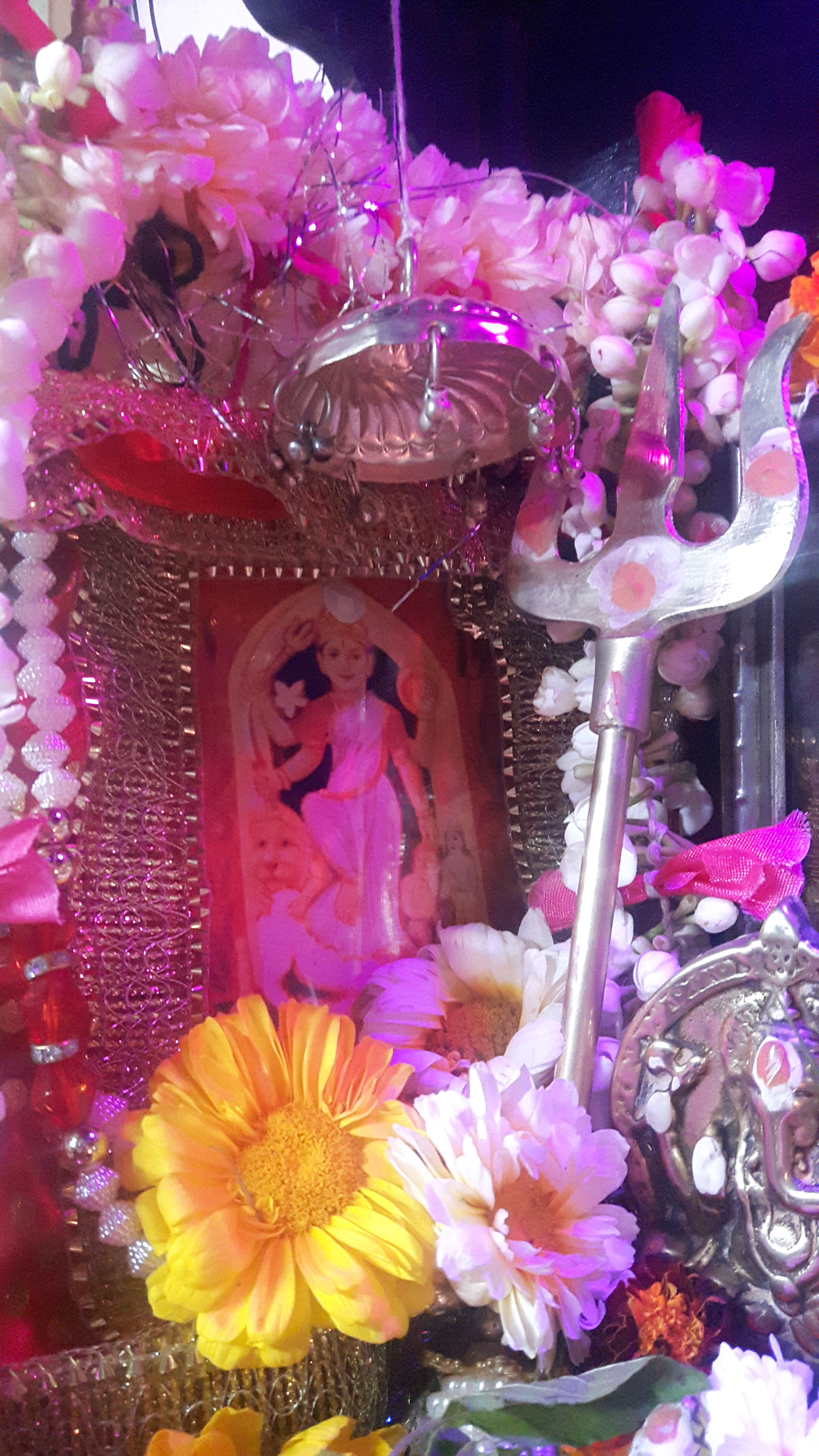 Aai